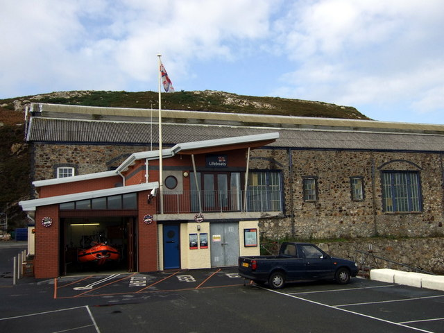 Fishguard lifeboat station The first lifeboat station was established at Fishguard in 1822. The present station, which is located on the quay between the railway terminus and the northern breakwater, is staffed by two crews and has around 30 members.